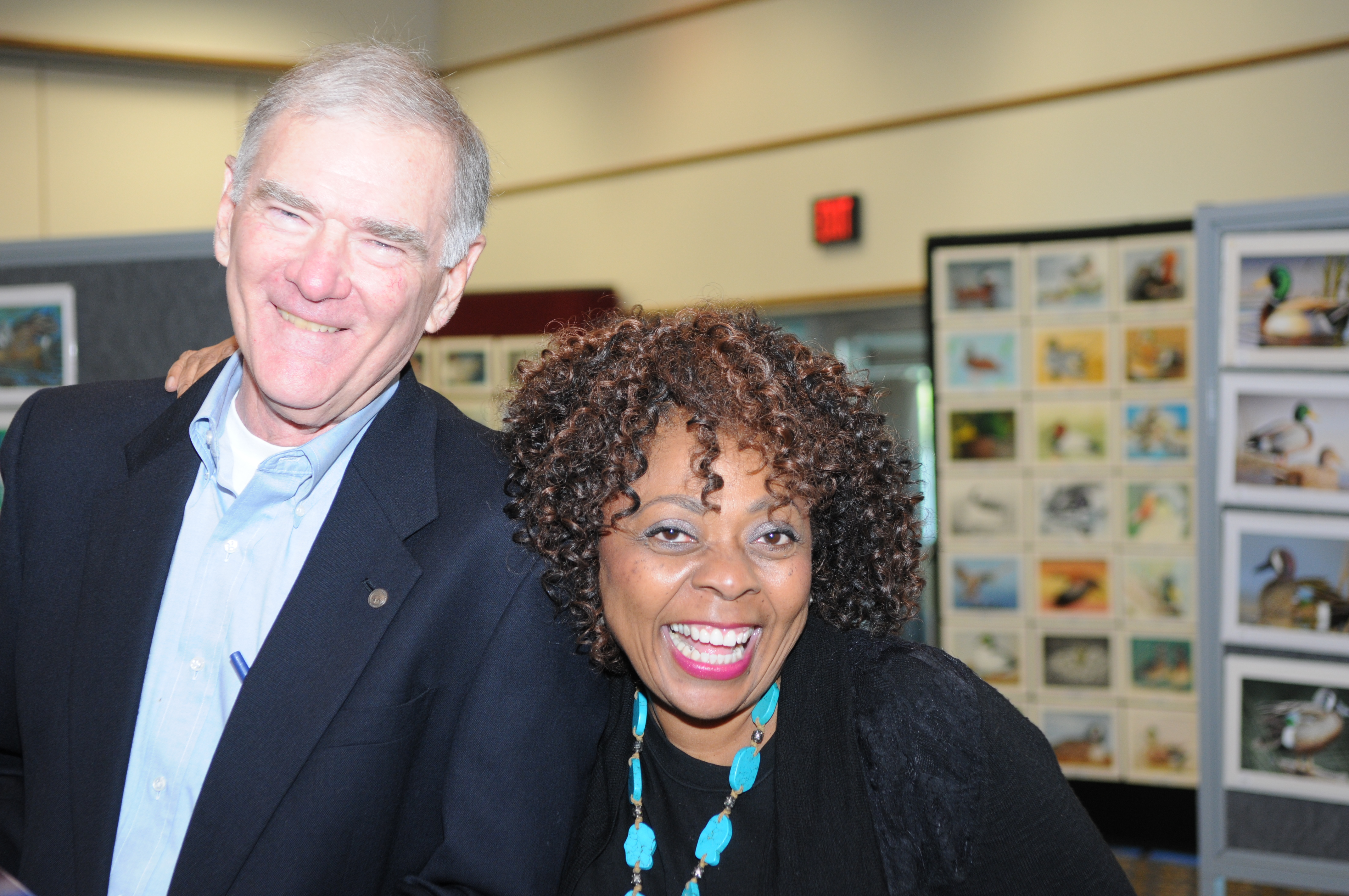 Photo by Garry Tucker/USFWS.